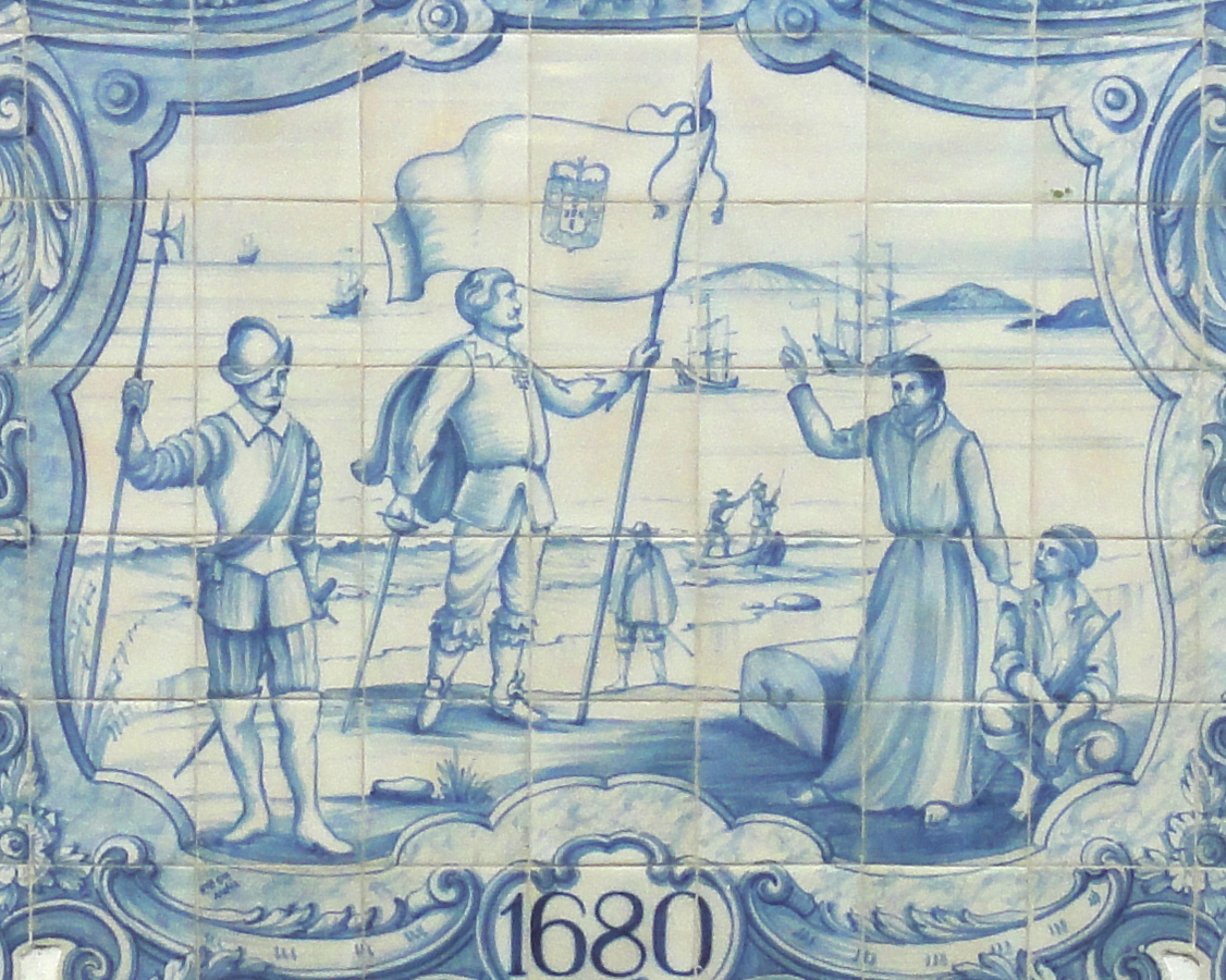 Tile panel depicting the foundation of Colonia del Sacramento. Portuguese Museum.